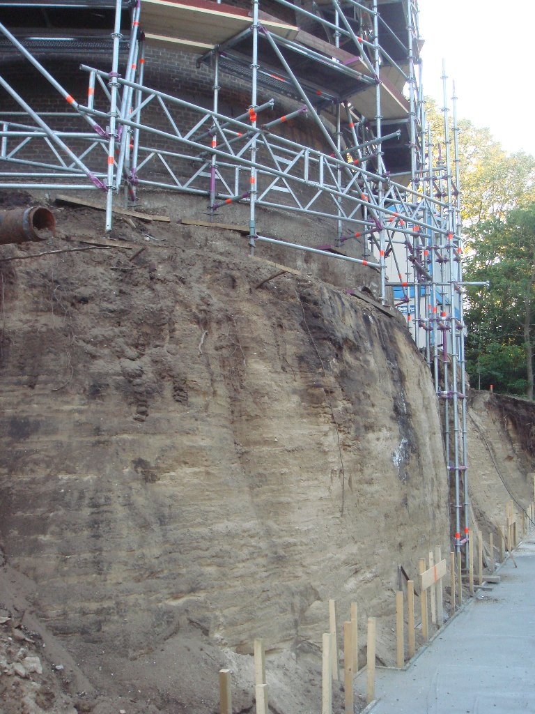 Watertower on vertical soil injection